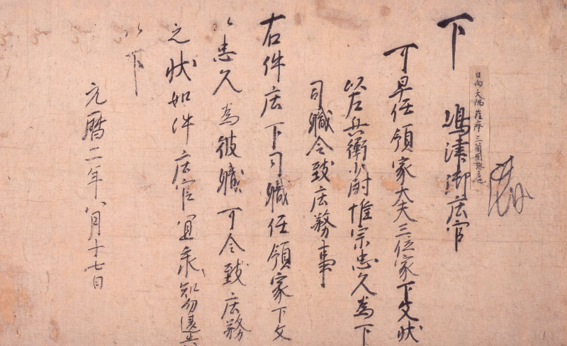 Part of the Shimazu-ke Monjo (島津家文書), a large scale collection of documents of the Shimazu clan covering among others politics, diplomacy, social economy and inheritance. The total number of documents is 15,133. The collected items have been nominated as National Treasure of Japan in the category ancient documents.